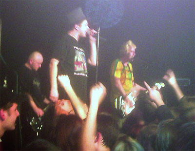 Pidżama Porno in Katowice, Poland (Scena GuGalander)